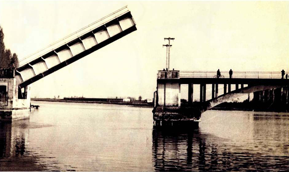 First moveable bridge in Iran establishment in Bandar-e Pahlavi (today call it: Bandar-e Anzali).